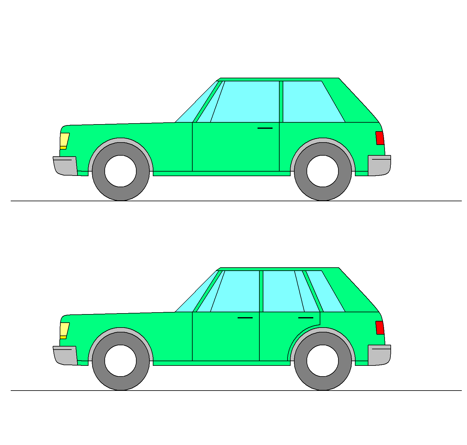 Cartype 3 and 5 door Hatchback